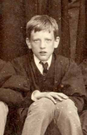 School photograph of Robert Vane Russell (1873-1915) at Winchester College, England. He later attended Trinity College, Cambridge, and joined the Indian Civil Service in 1893